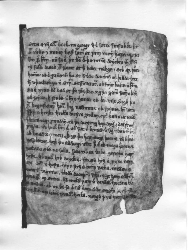 NKS 1824 b 4° folio from Ragnars saga loðbrókar manuscript(XV Century)